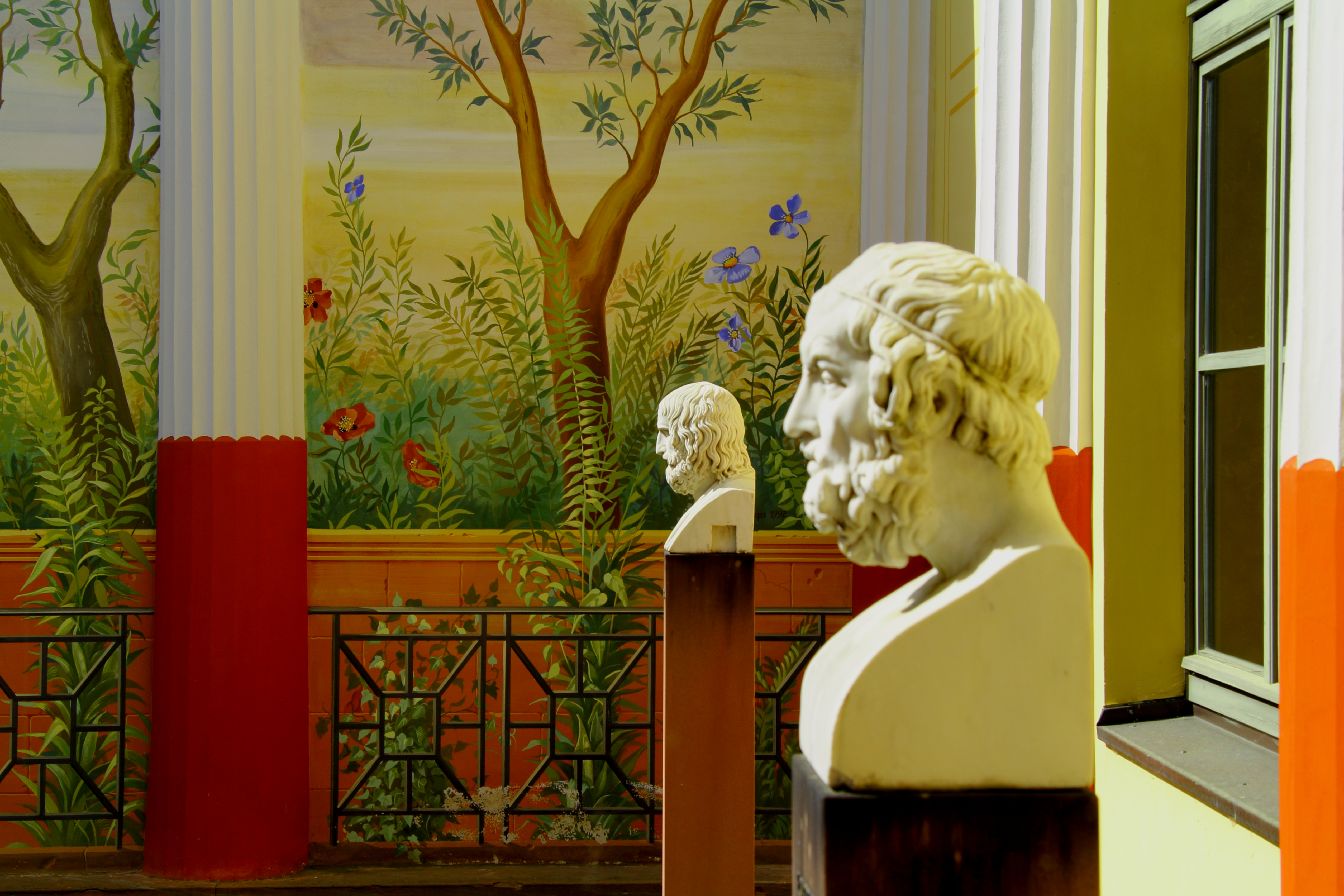 Garden in the inner court of the Pompejanum (19th century replica of an ancient Roman house in Pompeii) in Aschaffenburg, Bavaria/Germany